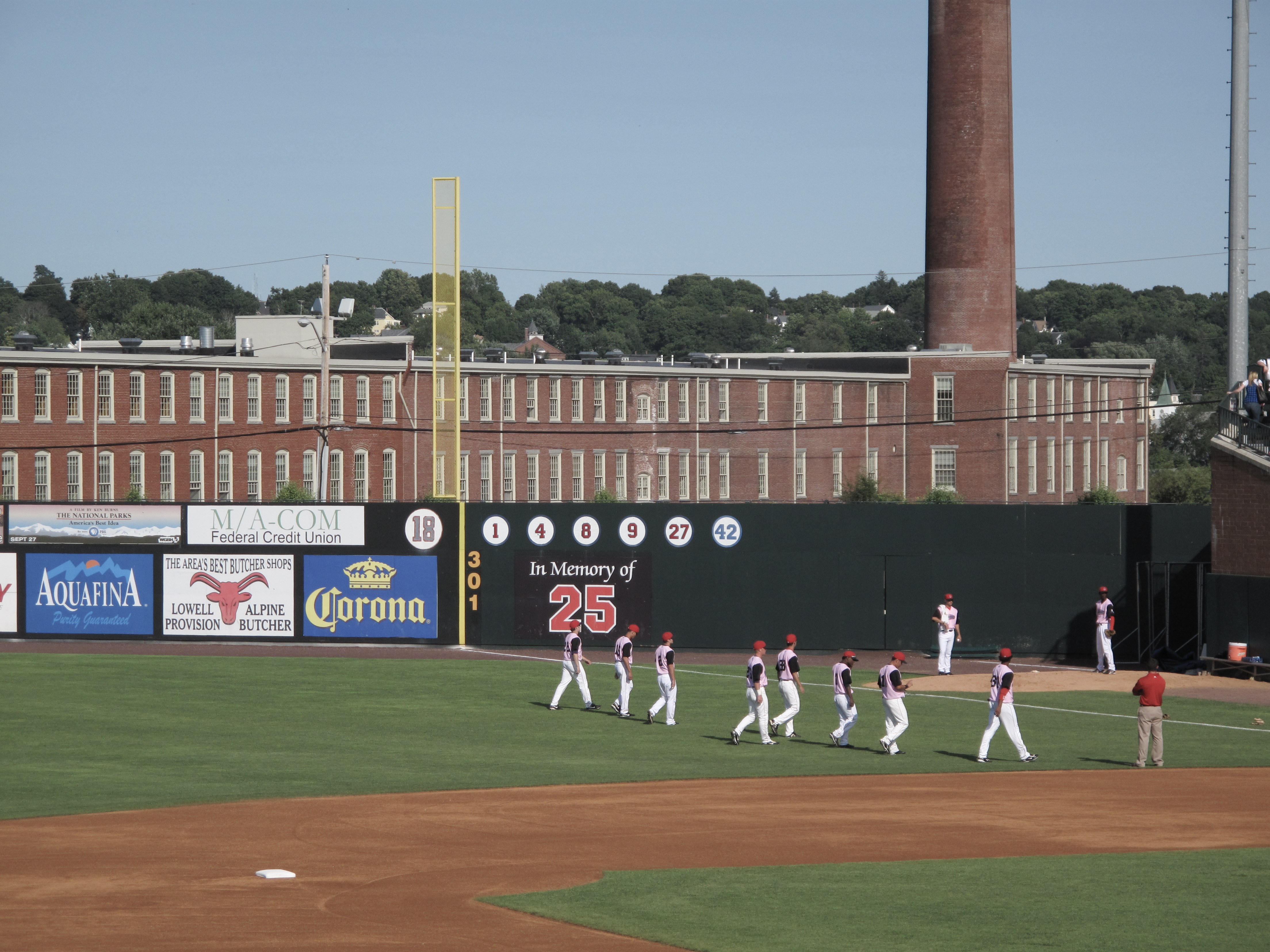 Members of the Lowell Spinners warm up in right field at LeLacheur Park, June 2009, with historic mill in background.